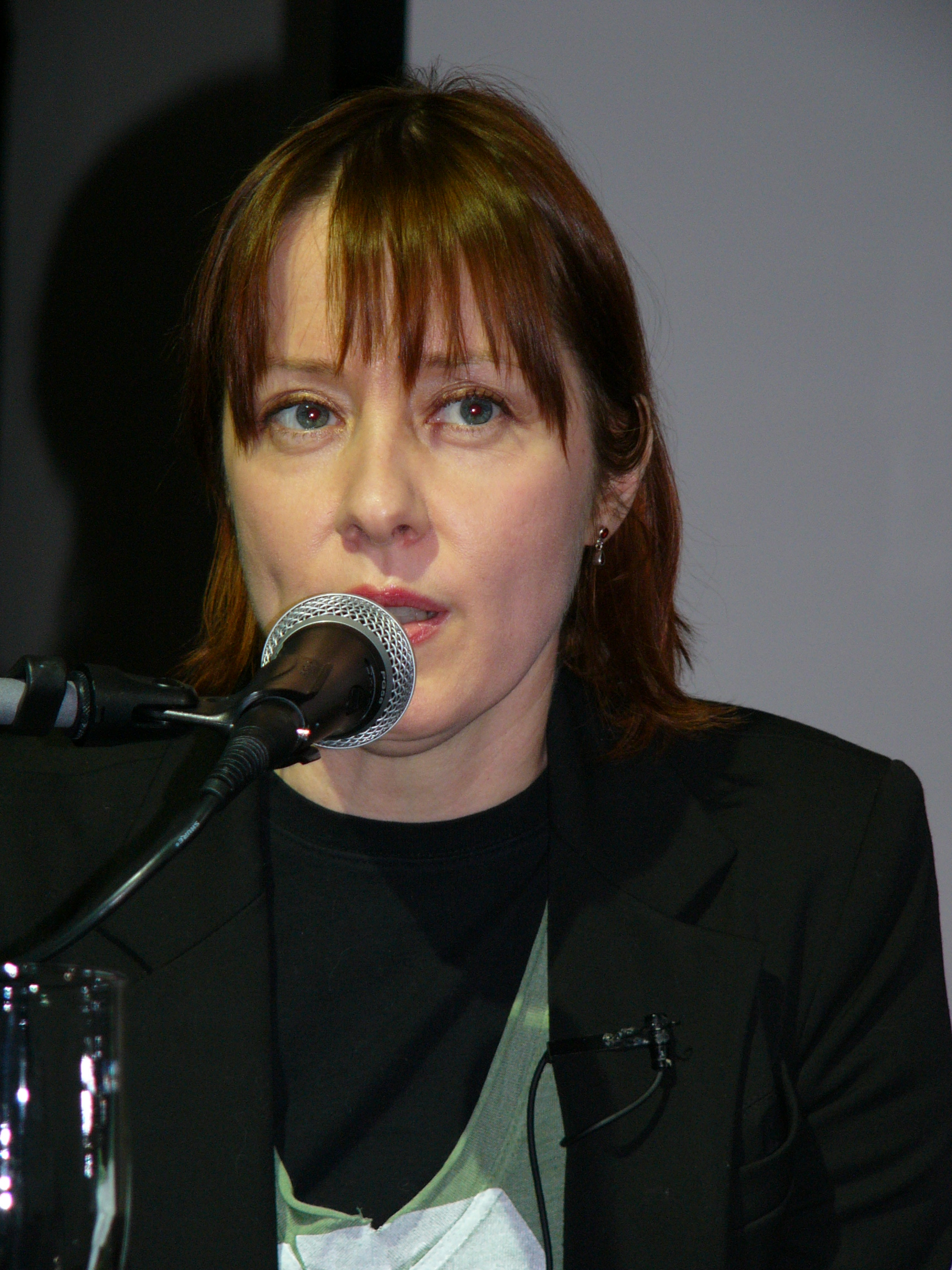 American singer Suzanne Vega in the talkshow in Olomouc (The Czech Republic).